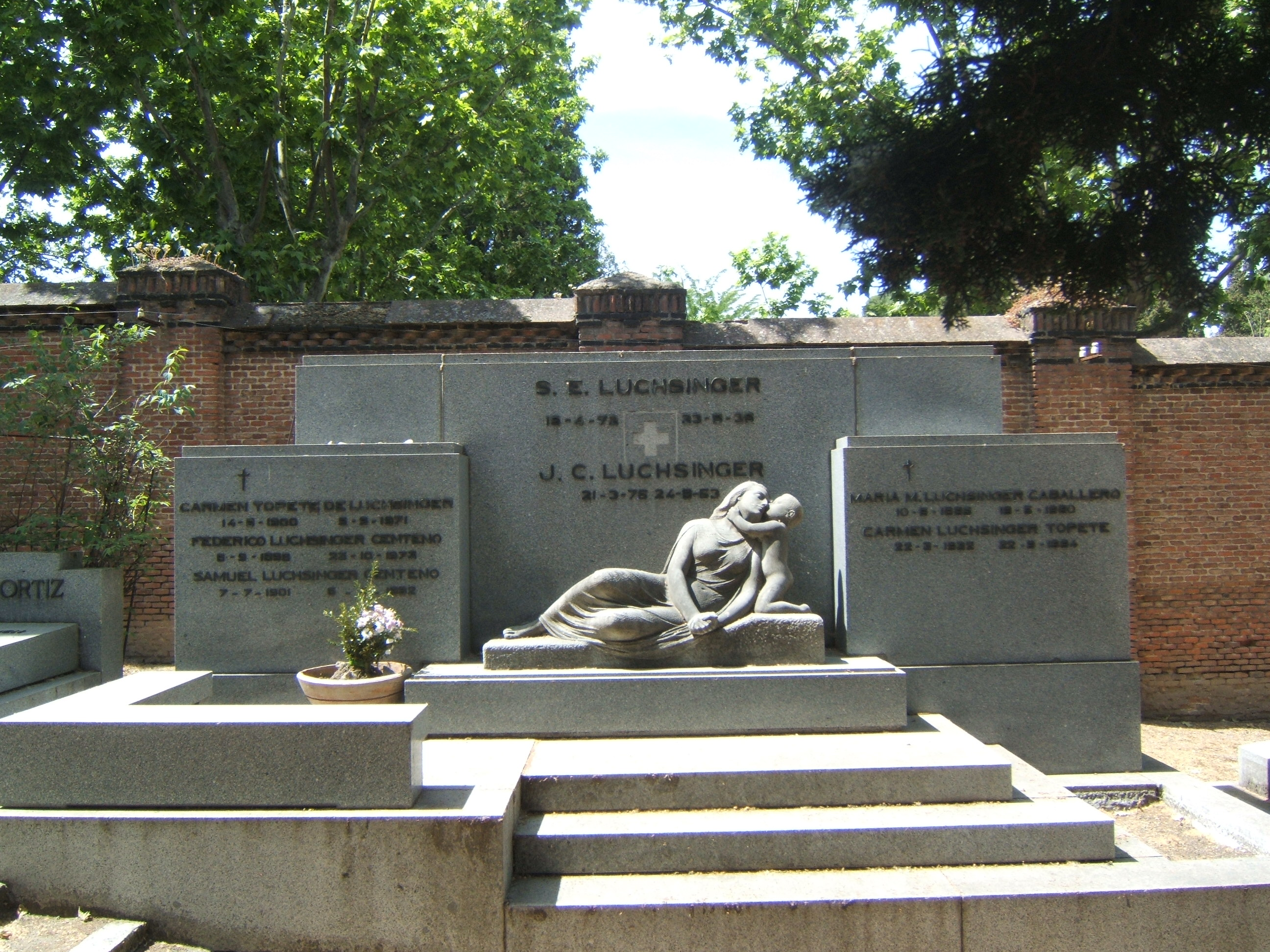 Works by Emiliano Barral (1896-1936) in the Civil cemetery in Madrid.